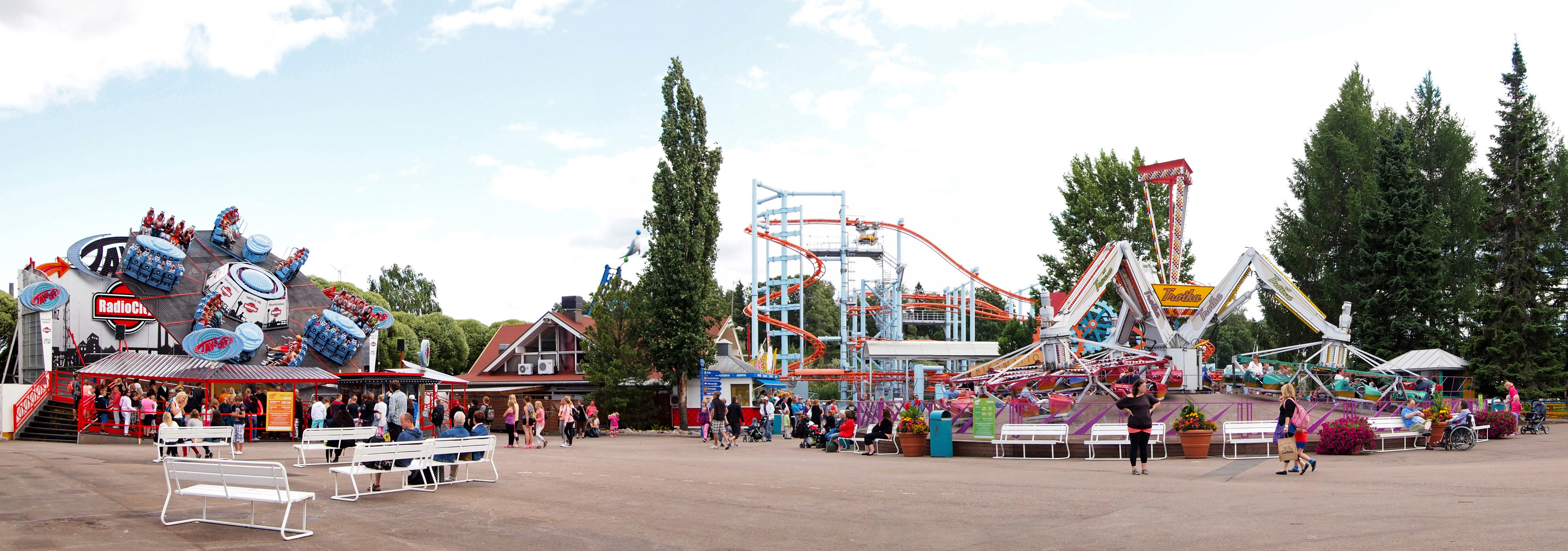 View in Särkänniemi amusement park, Tampere. This photograph was taken with a Olympus E-PL1.